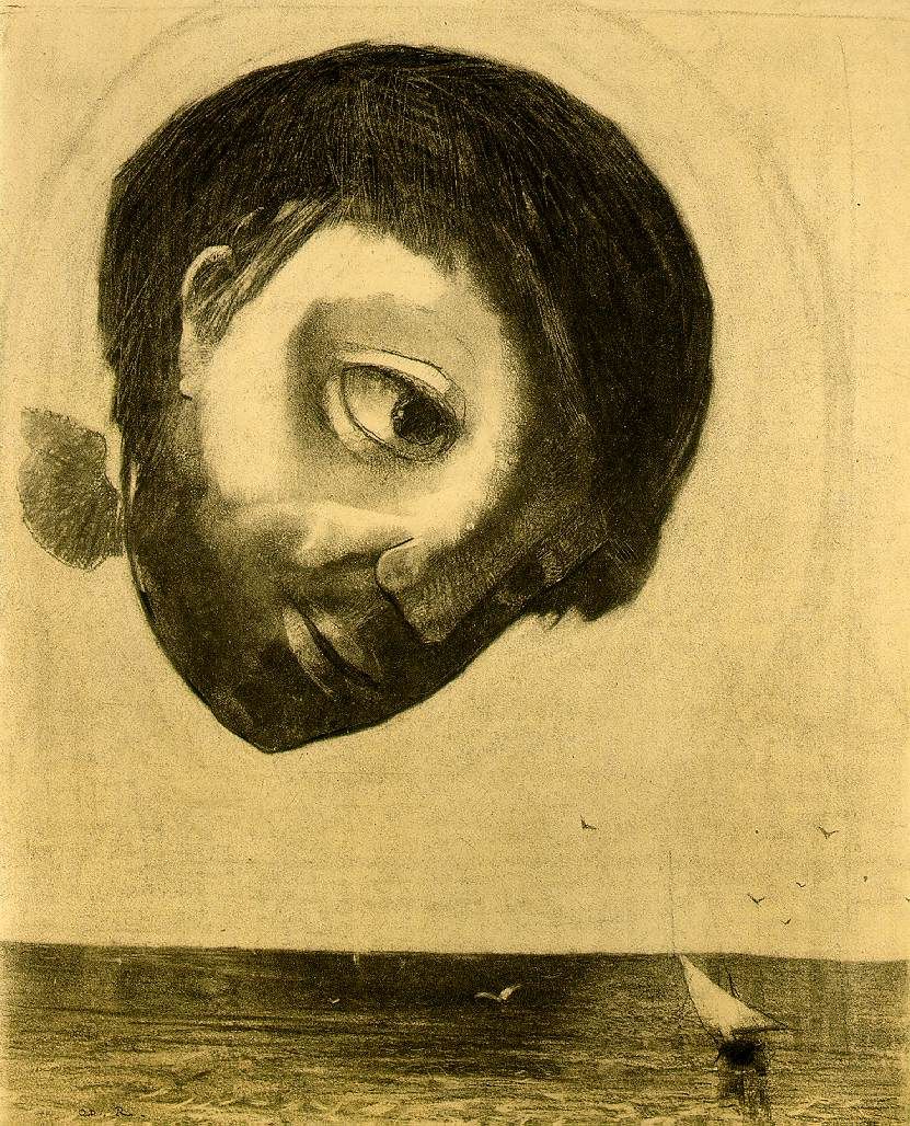 Guardian Spirit of the Waters, 1878, by Odilon Redon in the public domain.